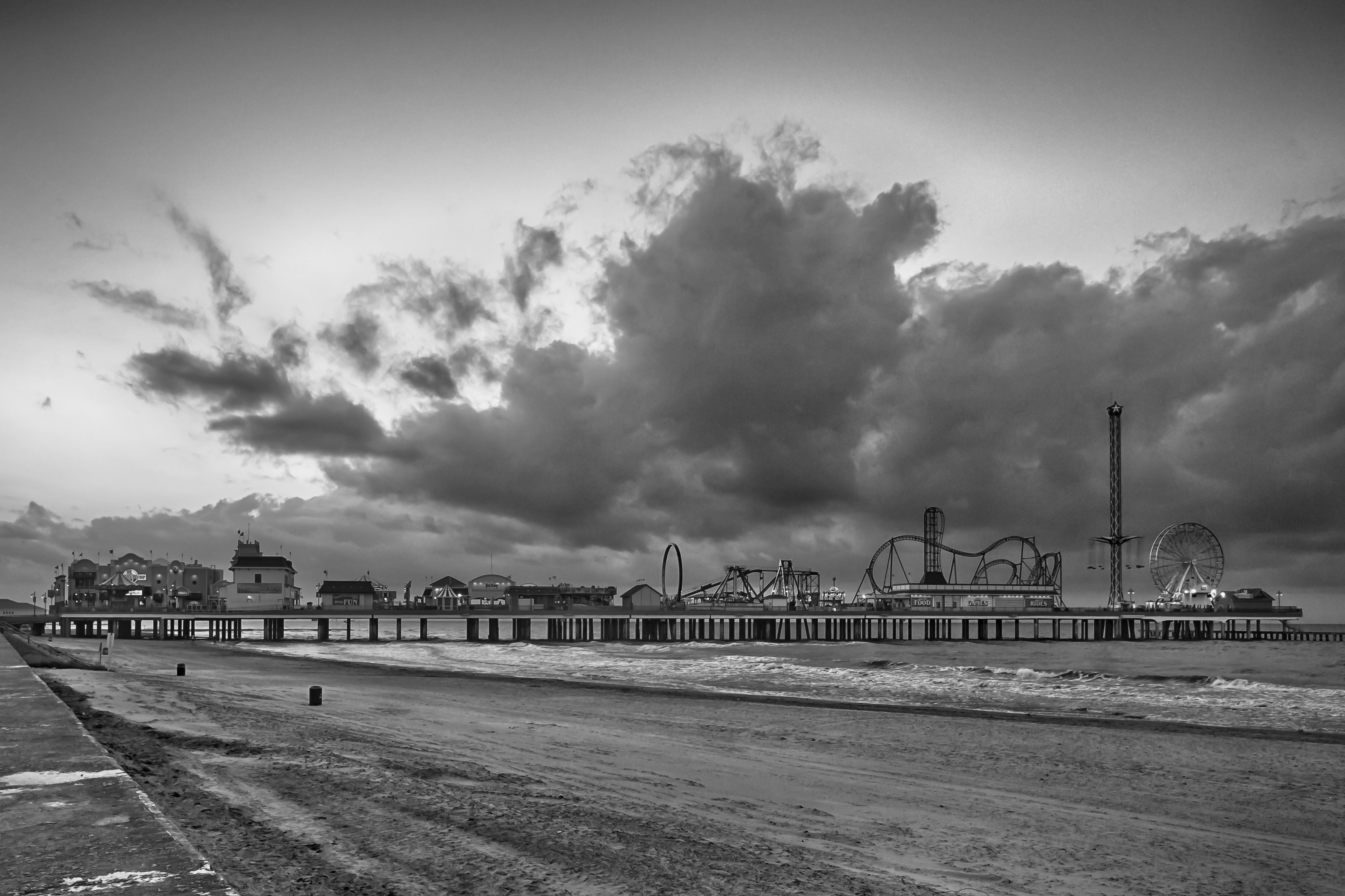 Landry's Galveston Island Historic Pleasure Pier — in Galveston, on Galveston Island in Texas.